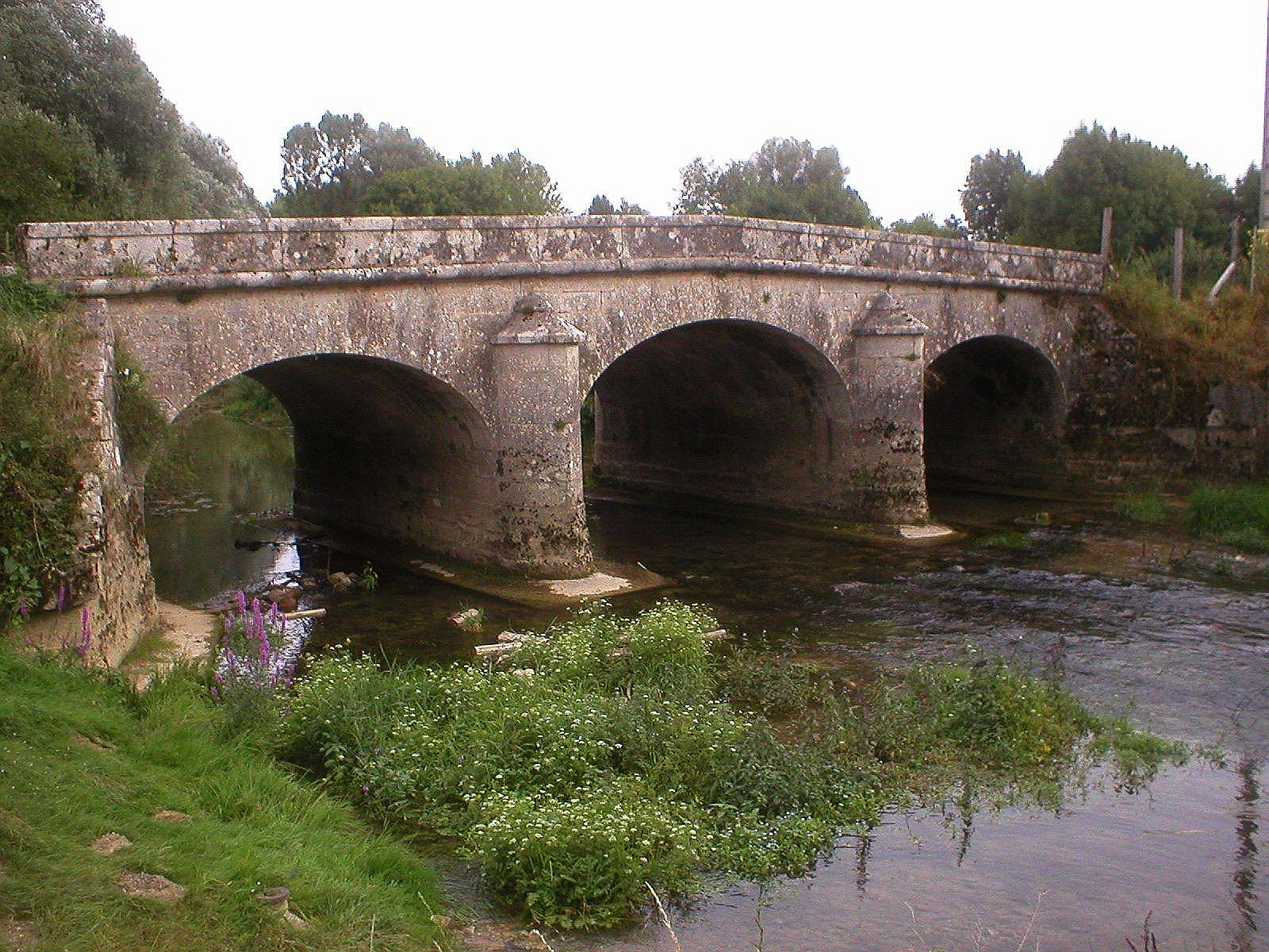 River Ource at Grancey-sur-Ource (Côte d'Or - France)